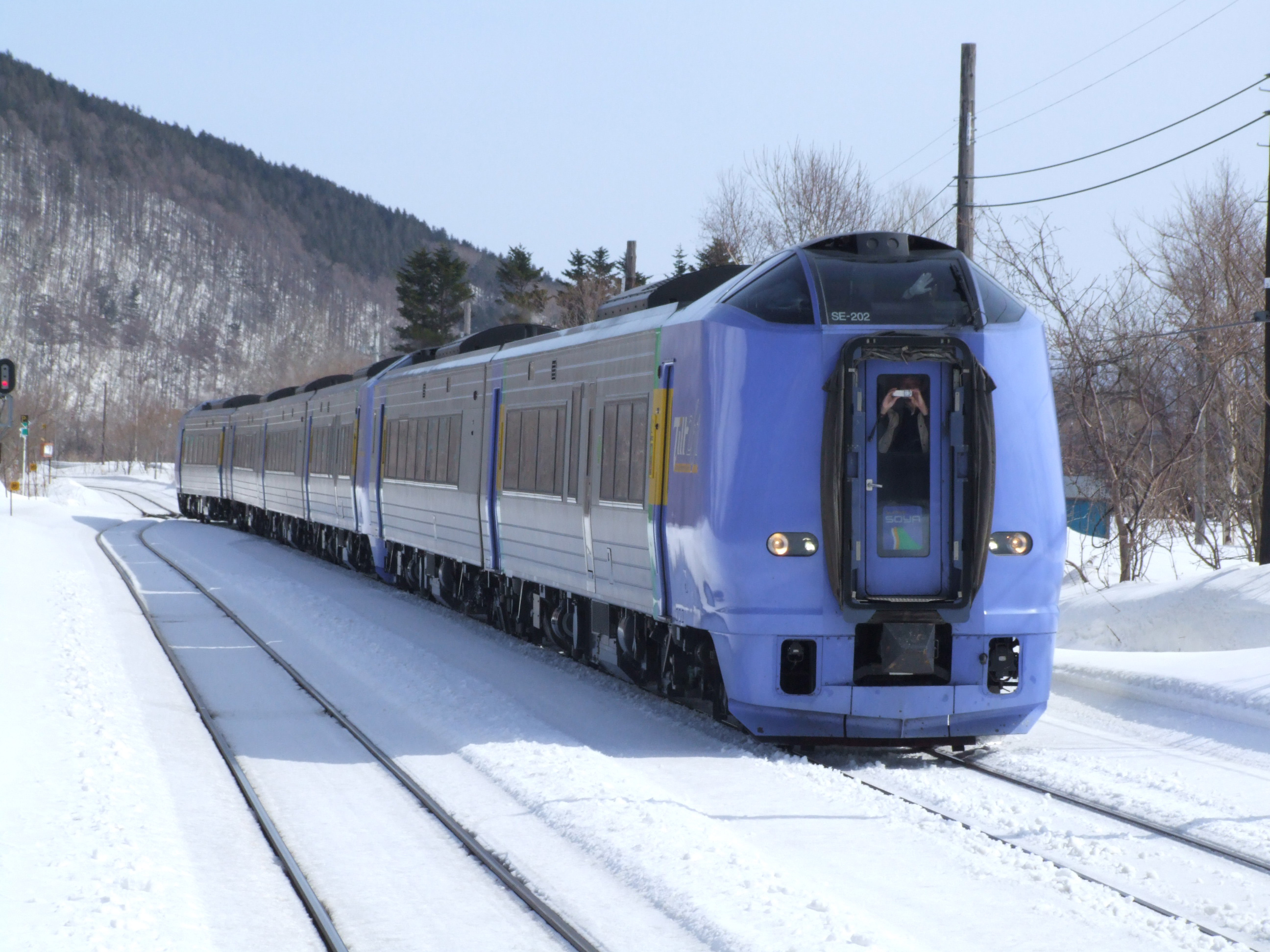 "Super SOYA" at Onoppunai Station, Soya Main Line, Hokkaido